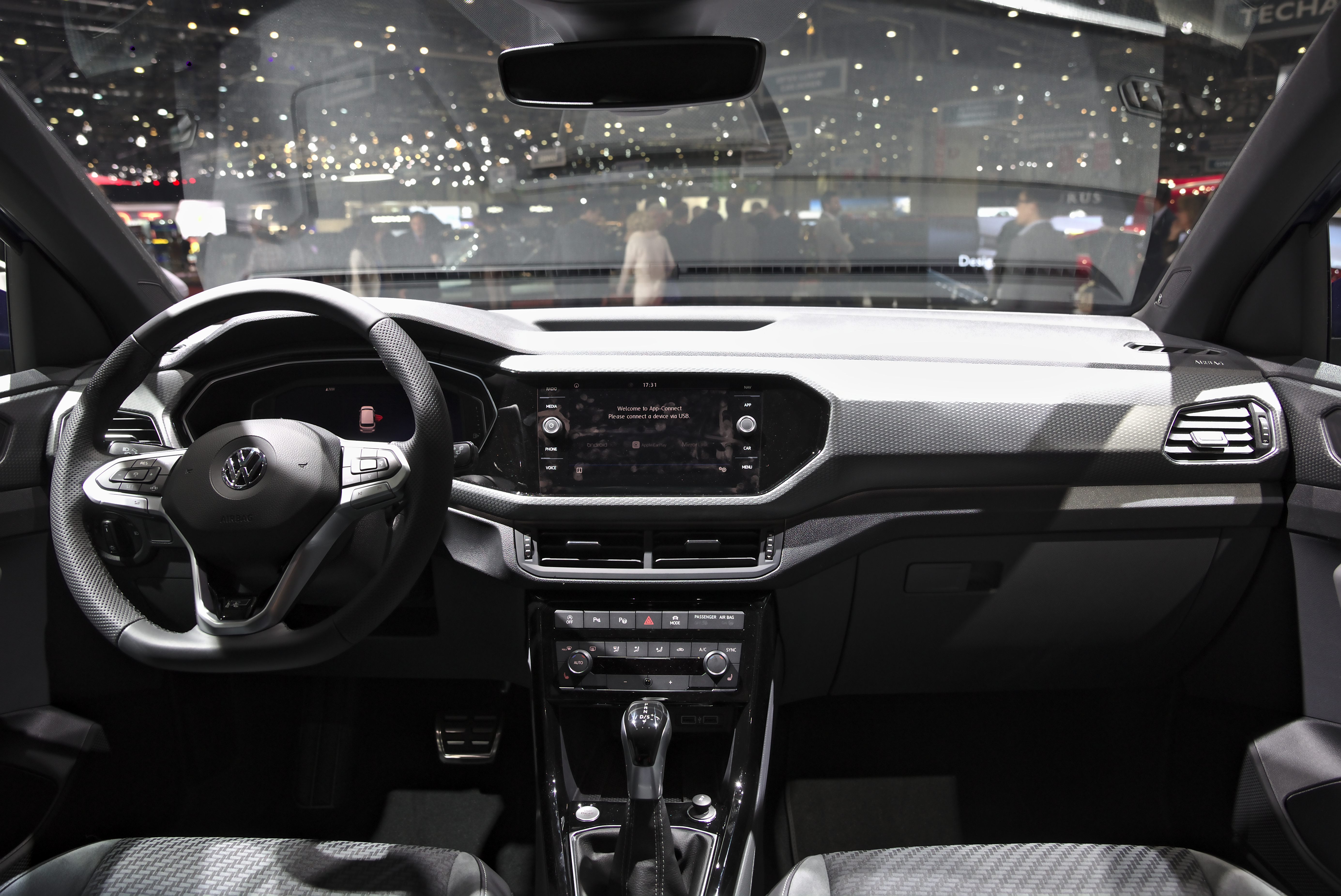 VW T-Cross R-Line at Geneva Motor Show 2019